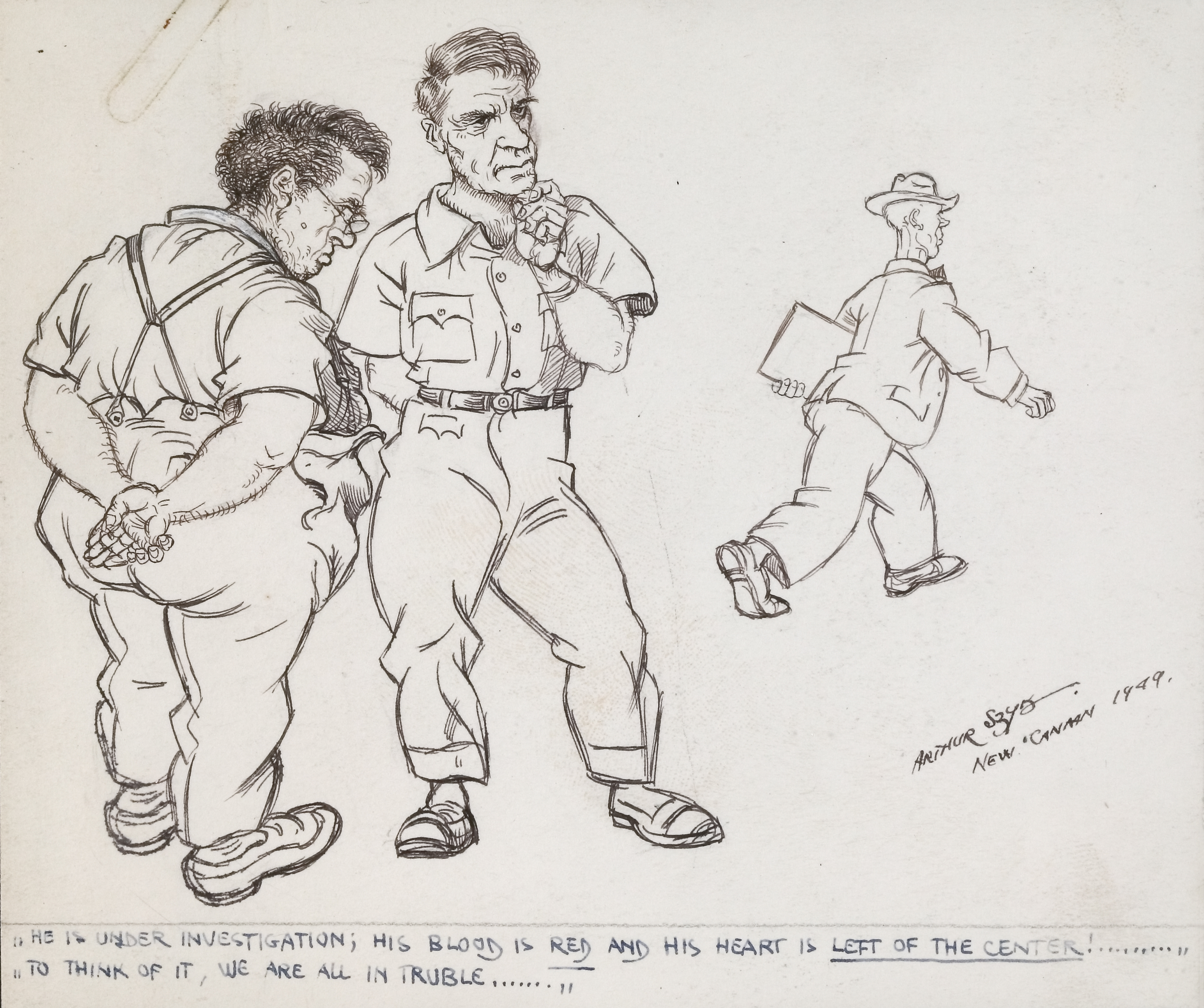 Szyk spoke out against McCarthyism, noting that the rationale for suspicion—“red blood” and a “heart left of center”—was so broad as to implicate nearly every American of Communist sympathies.